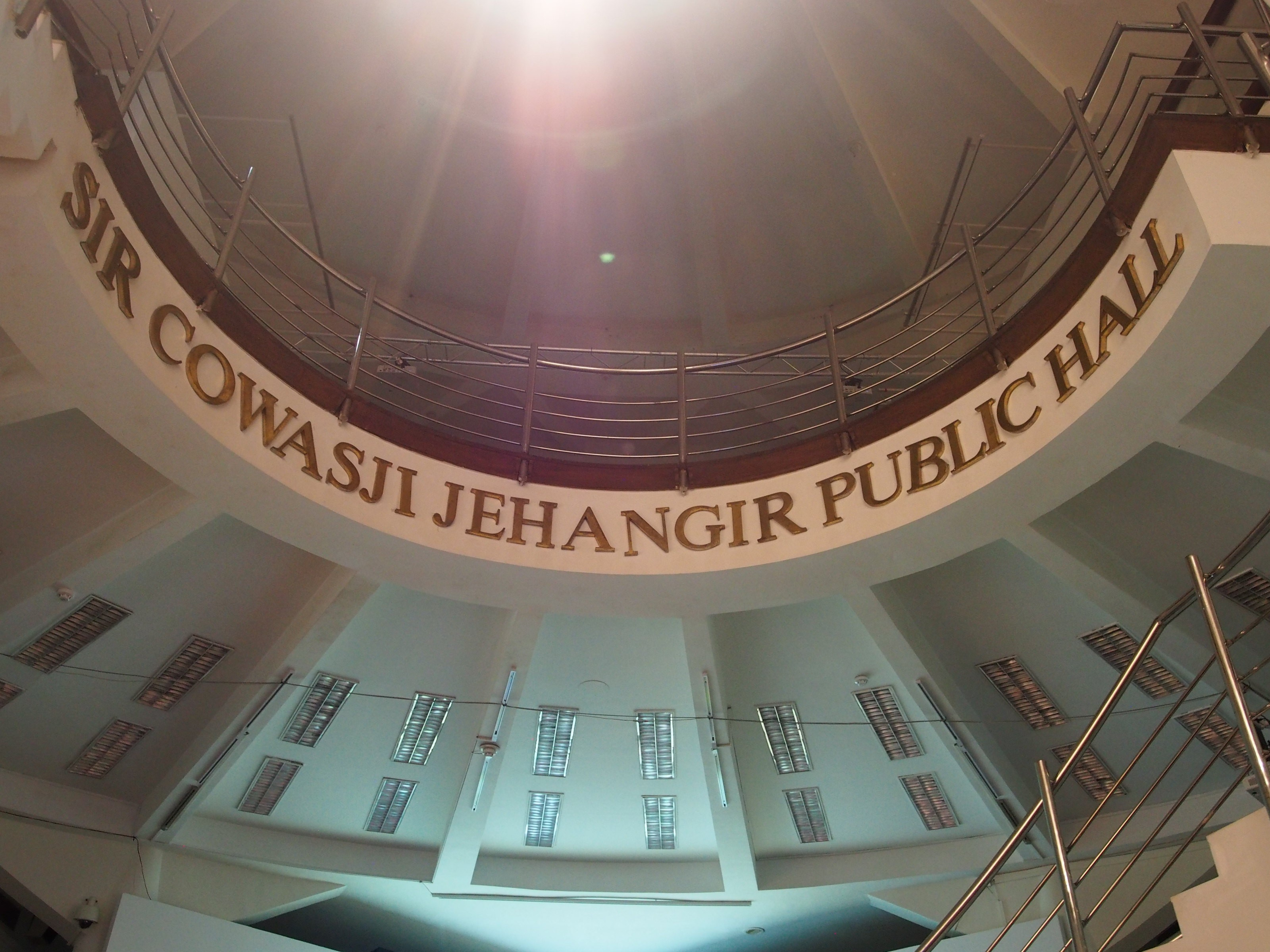 Sir Cowasji Jehangir Hall, Mumbai